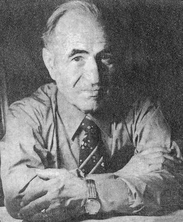 Hugo Princz, Holocaust survivor. Copy of image in base newspaper at Ft. Monmouth New Jersey.